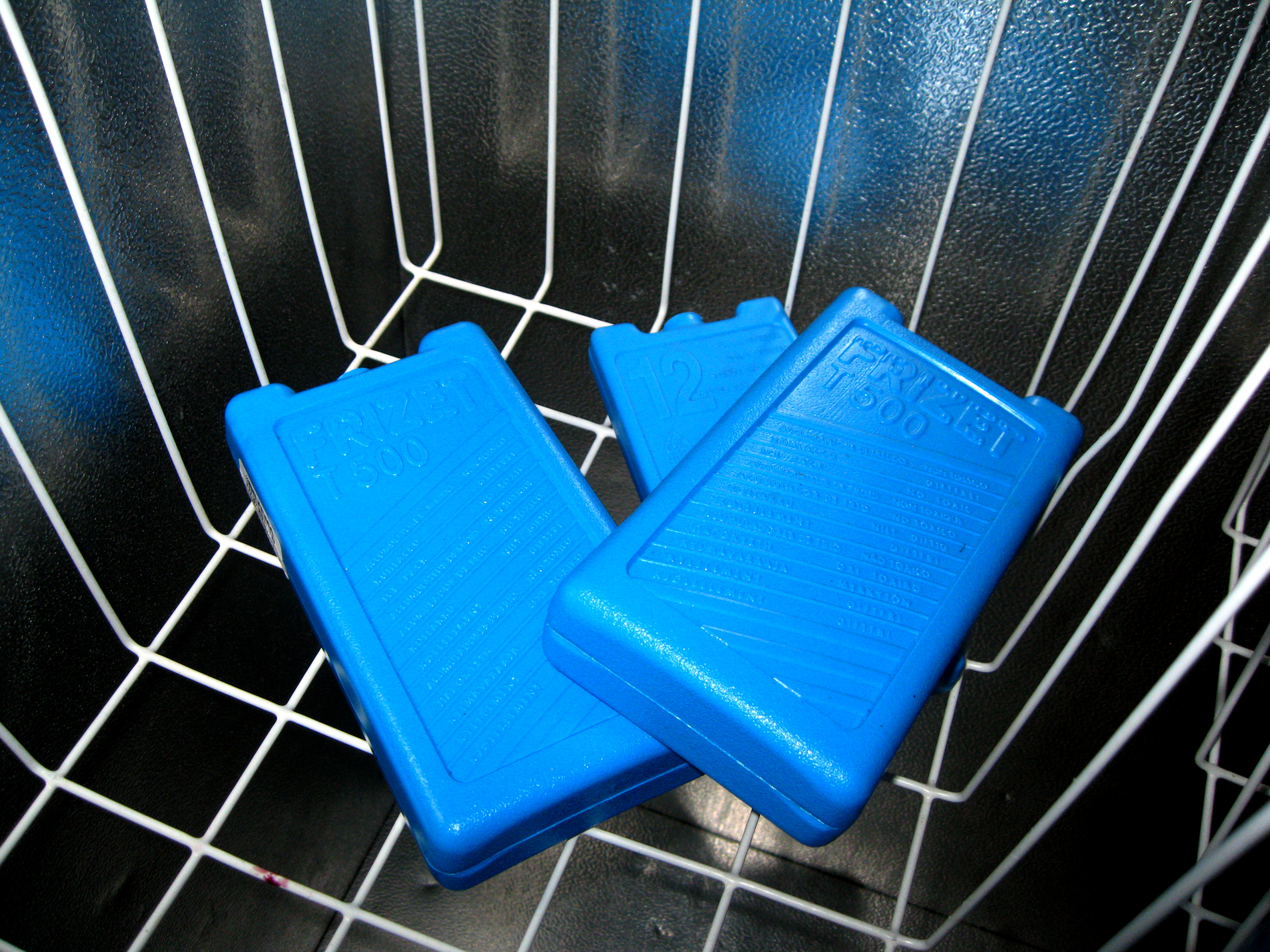 Freezer ice packs.